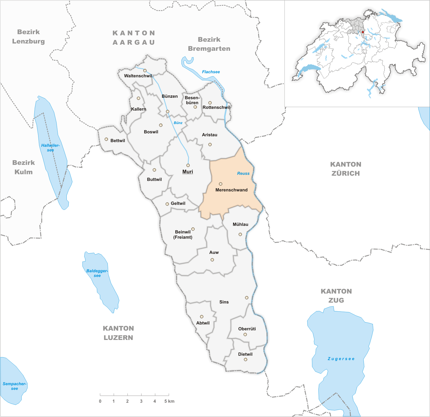 Municipality Merenschwand